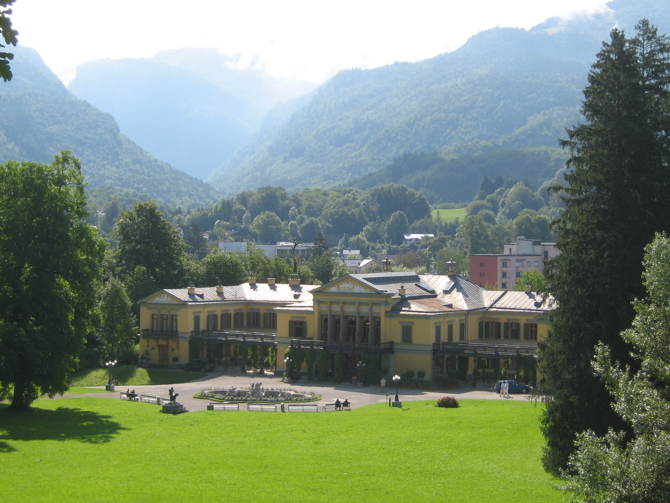 Austria, Bad Ischl, Kaiservilla